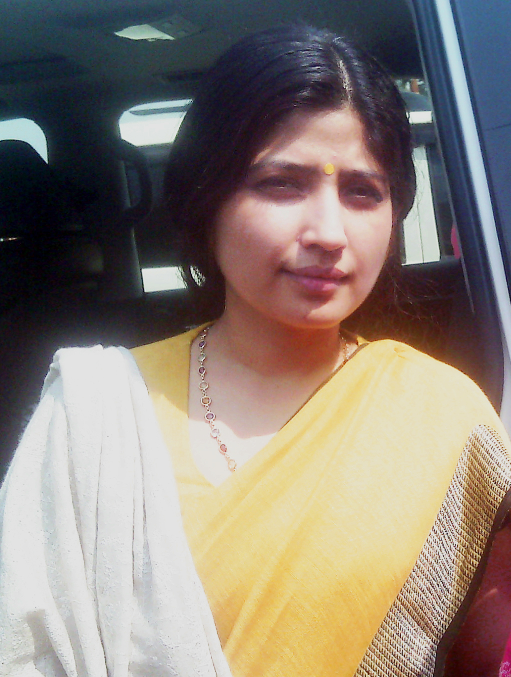 Dimple Yadav at MLC election campaign.